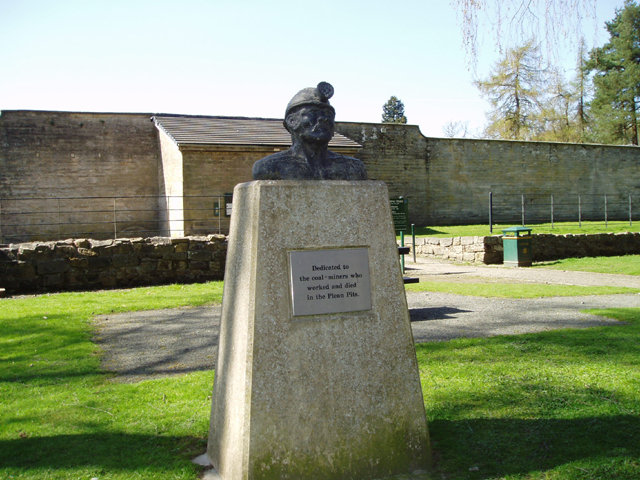 Mining Memorial, Plean Country Park. This Memorial was erected to the memory of all those who worked in the Plean collieries and especially as a memorial to the 1922 East Plean Colliery disaster where 12 men were killed and 7 injured. The memorial sits in front of Plean Country Park's Walled Garden which can be seen behind the memorial.